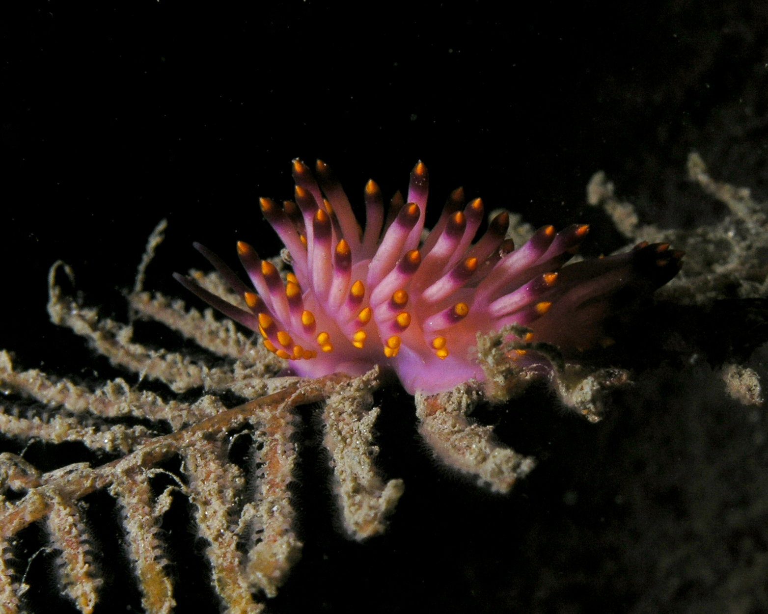 Flabellina pedata nudibranch from East Timor